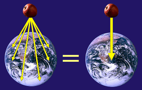 An apple experiences gravitational fields directed towards every part of the Earth; however, the sum total of these many fields produces a single powerful gravitational field directed towards the Earth’s center.